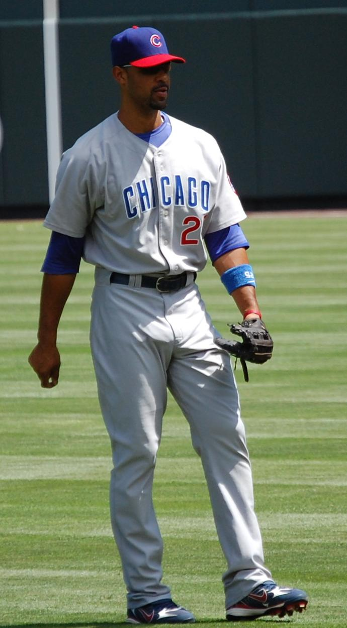 Derrek Lee takes the field * Cropped from Image:Cubswarmup.JPG * Image has been released under GFDL terms from original author and uploaded, Onetwo1. 23:03, 16 August 2007 . . ShadowJester07 . . 690×1246 (90 KB)